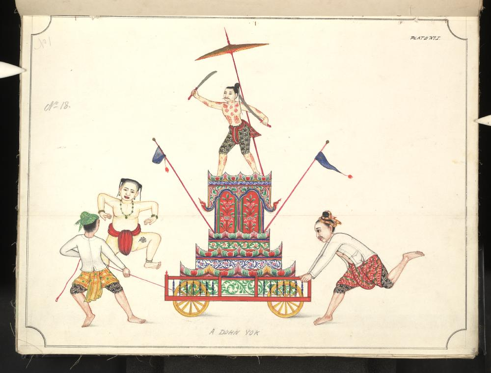 Watercolour painting by an unknown Burmese artist depicting 19th century Burmese life.